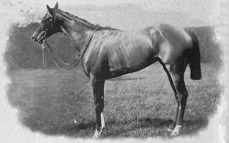 Musa, winner of the 1899 Epsom Oaks.